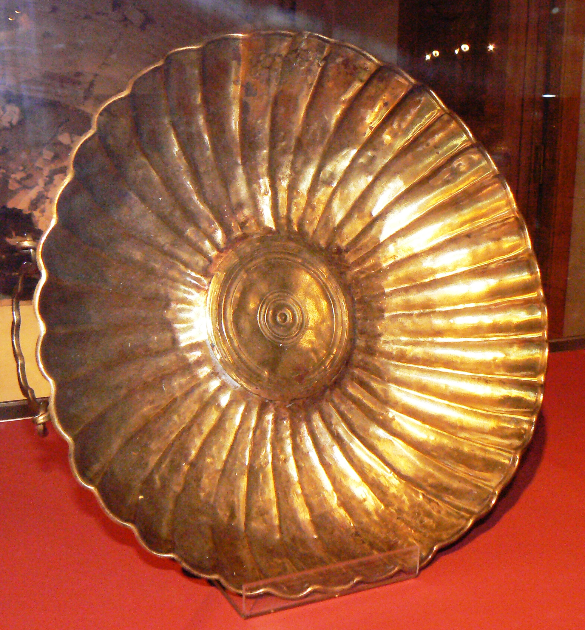 Funeral offering from 2-3 century, found near village Poleto, Blagoevgrad District. Exhibit of the National History Museum of Bulgaria